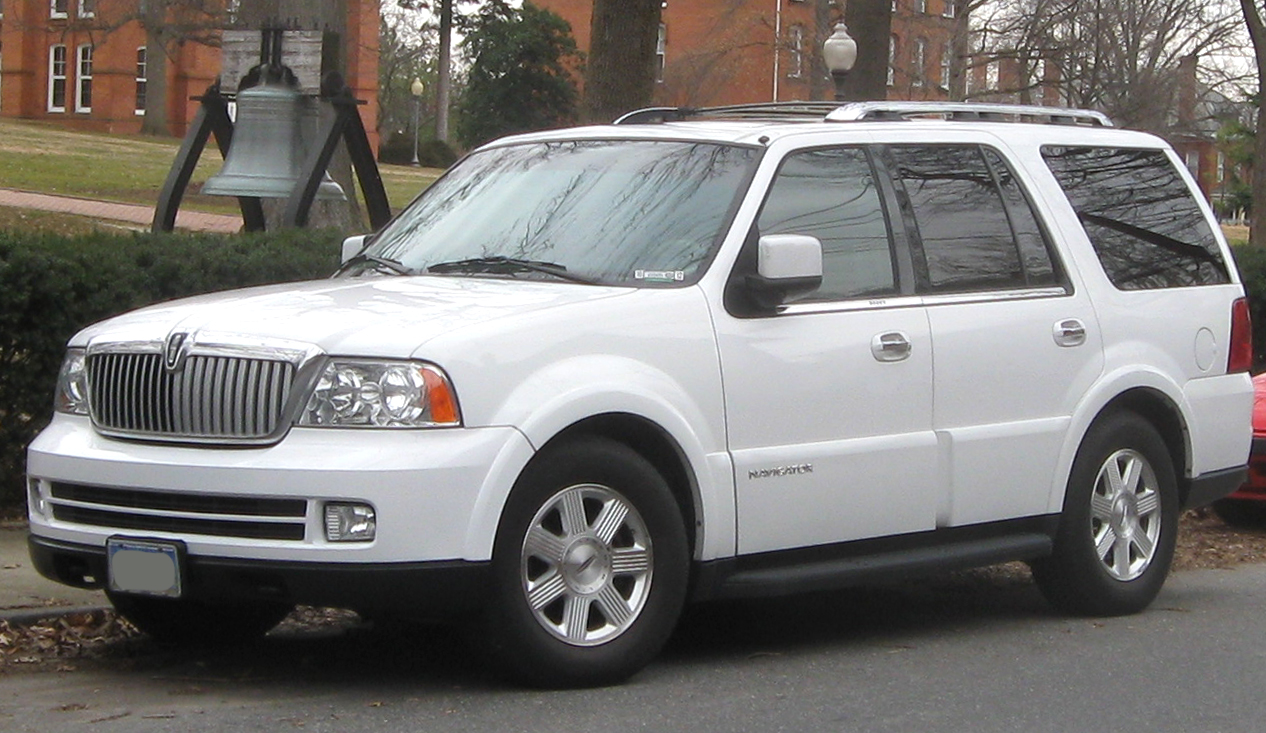 2005-2006 Lincoln Navigator photographed in Annapolis, Maryland, USA.